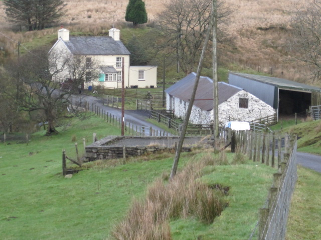 Birthplace of Sir John Rhys Ponterwyd